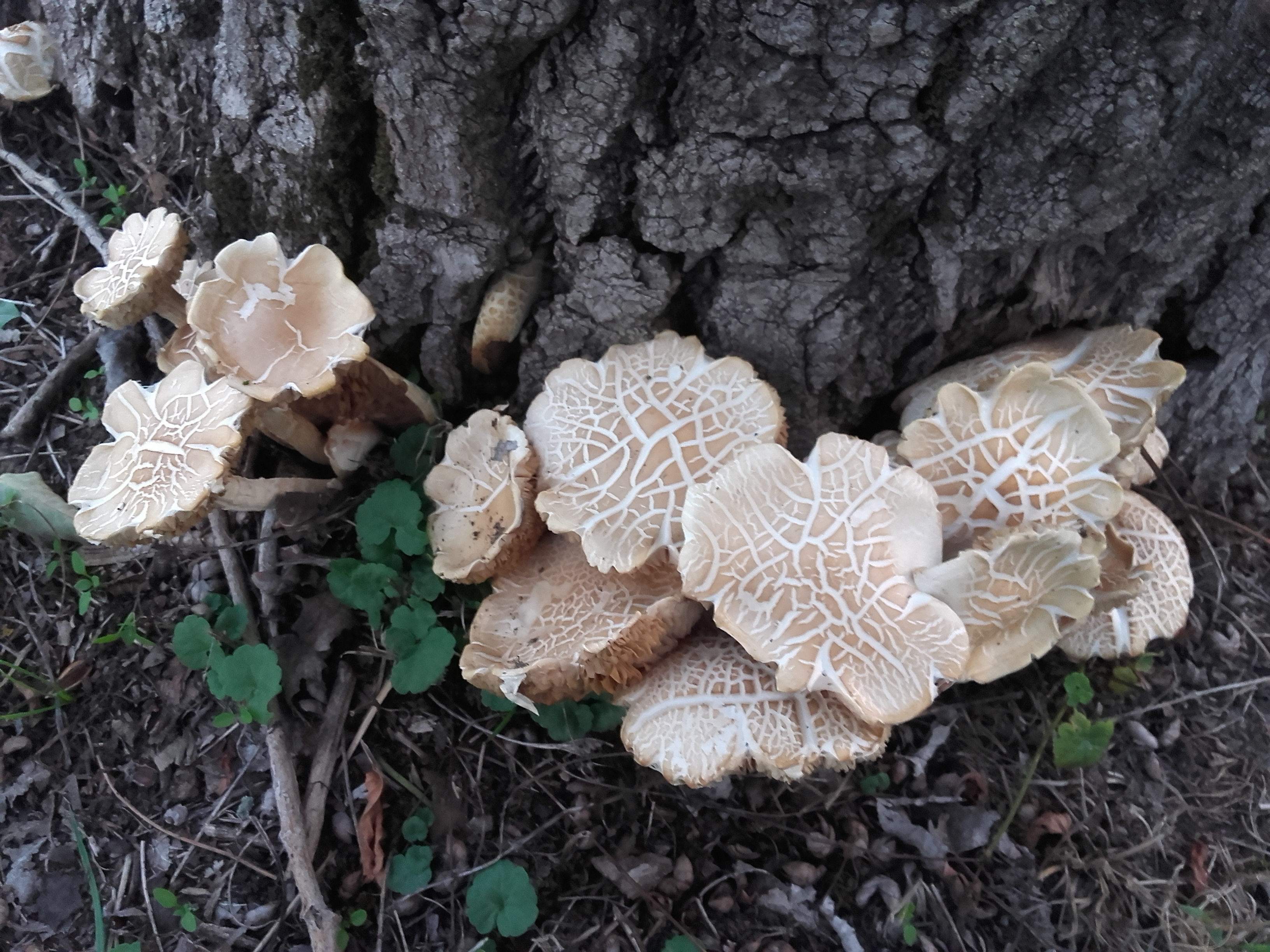 Јаблановача - групни раст